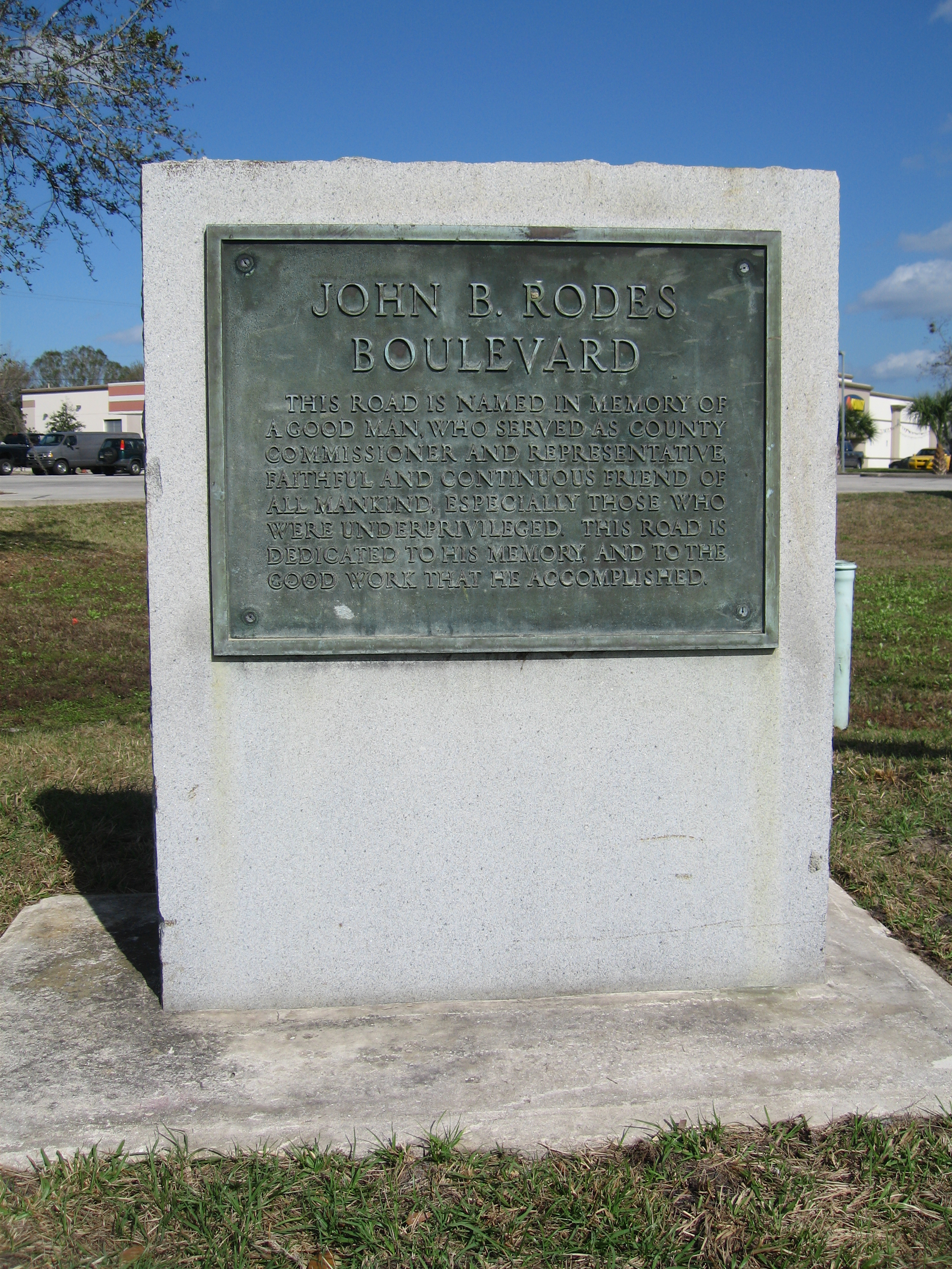 John B. Rodes Boulevard memorial at intersection of John Rodes Boulevard (County Road 511) and U.S. Route 192 in Melbourne, Florida. Note: a few months later, this memorial was moved north, to a location near 1715 South John Rodes Boulevard.